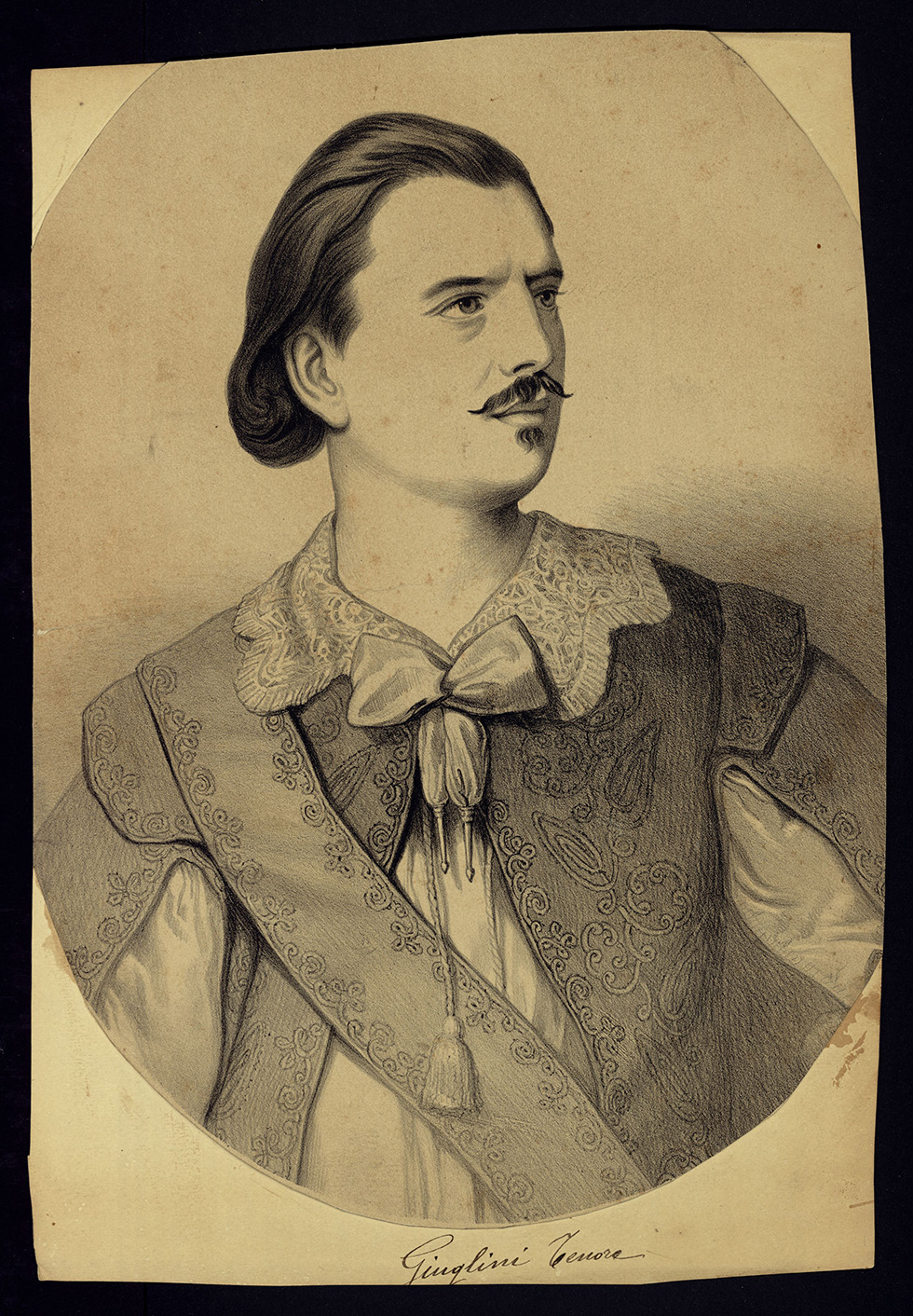 Portrait of Antonio Giuglini, tenor (1827-1865).